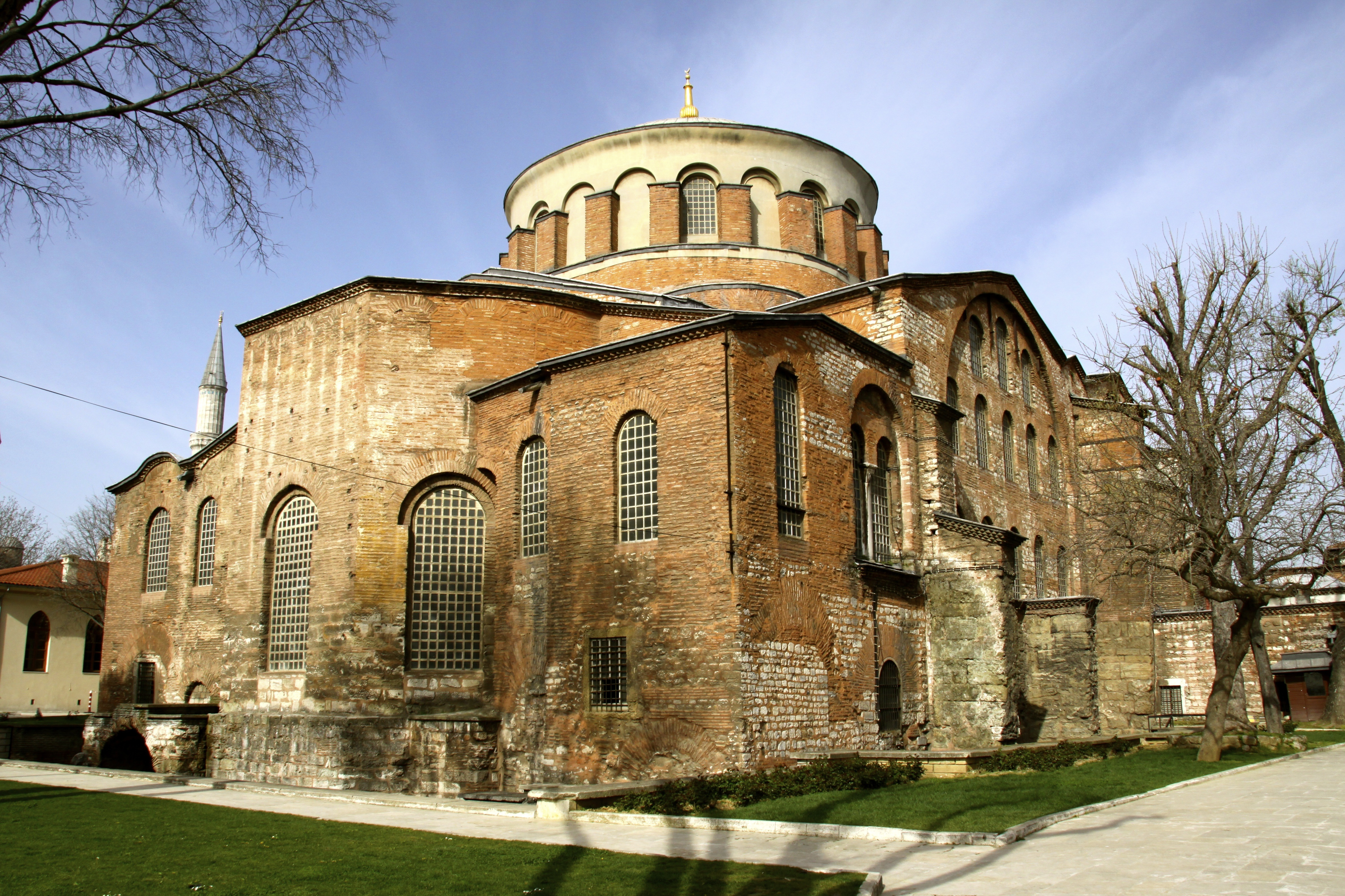 Exterior of Hagia Eirene